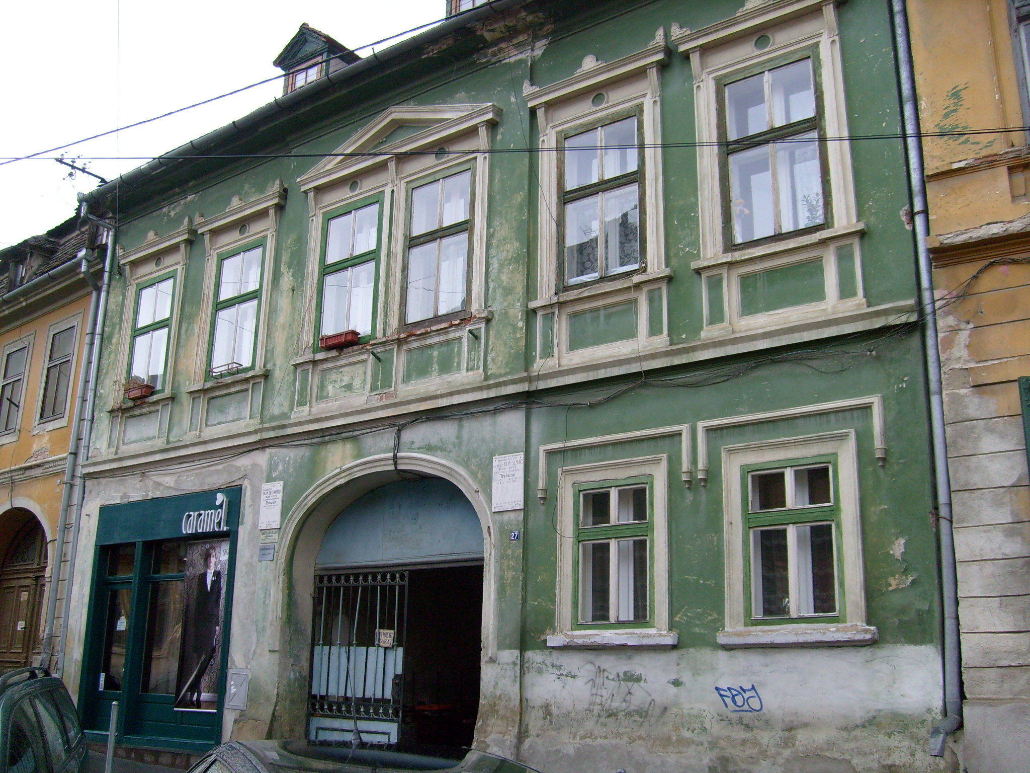 Slavici House in Sibiu.